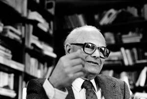 Miklós Molnár